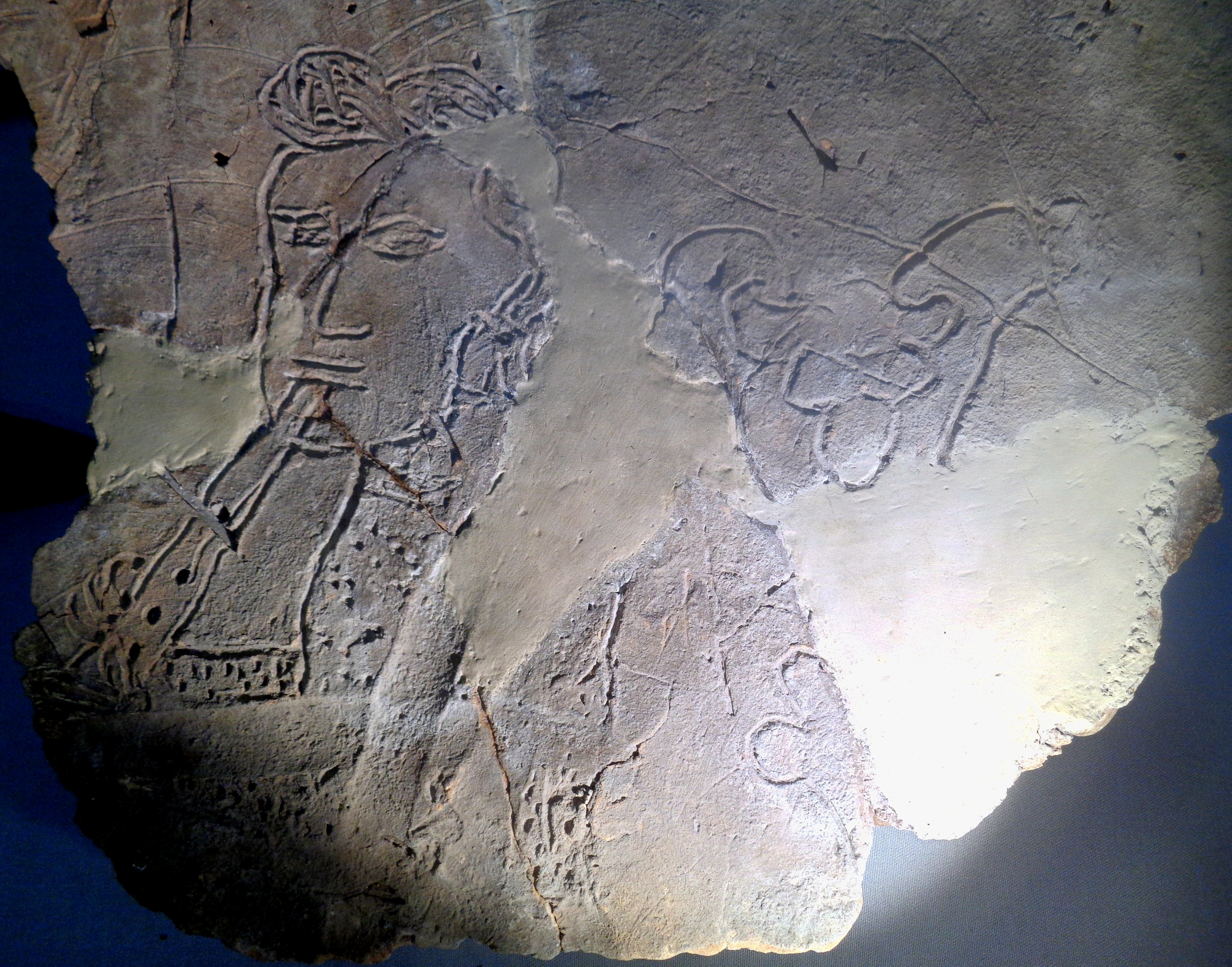 Fragments of a clay plaster with an image of the so called "Tērvete piper" found at the 13th century archaeological layer of Tērvete hillfort, National History Museum of Latvia.